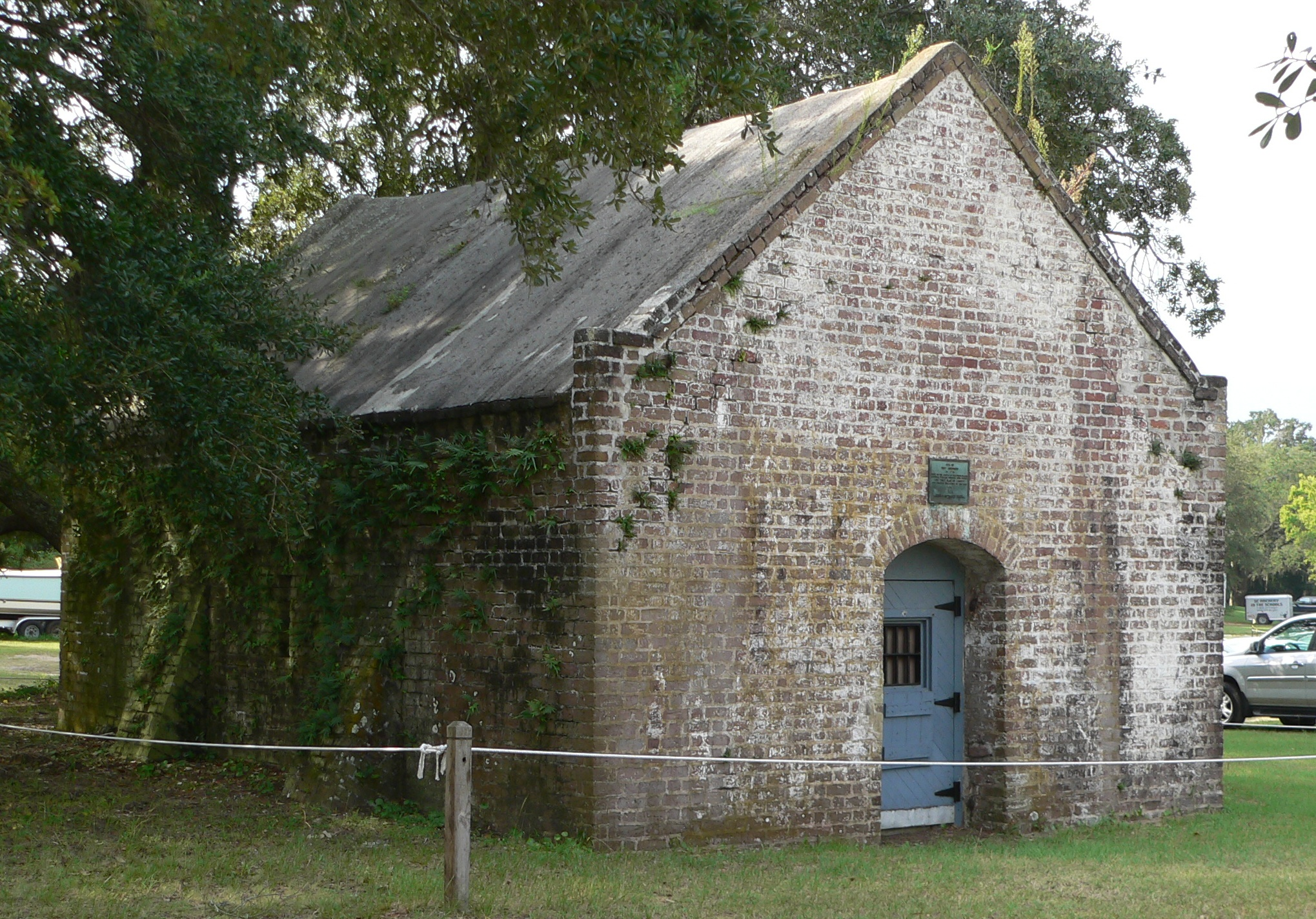 Fort Johnson powder magazine, located in the South Carolina Department of Natural Resources compound on Fort Johnson Road in James Island, South Carolina.